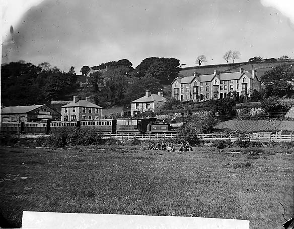 1 negative : glass, wet collodion, b&w ; 10 x 12.5 cm.